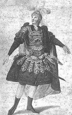 German tenor Anton Raaff in the title role of Wolfgang Amadeus Mozart's opera Idomeneo